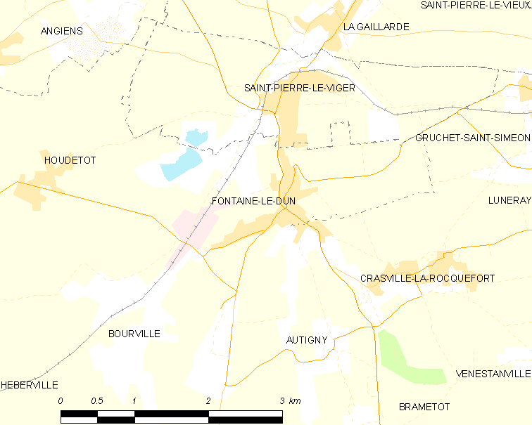 Map of French municipality Fontaine-le-Dun